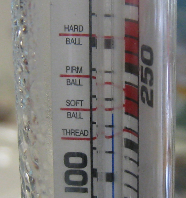 A candy thermometer says the sugar mixture for the marshmallows is approaching 245F, the right temperature to pour it into the mixer and start whipping.